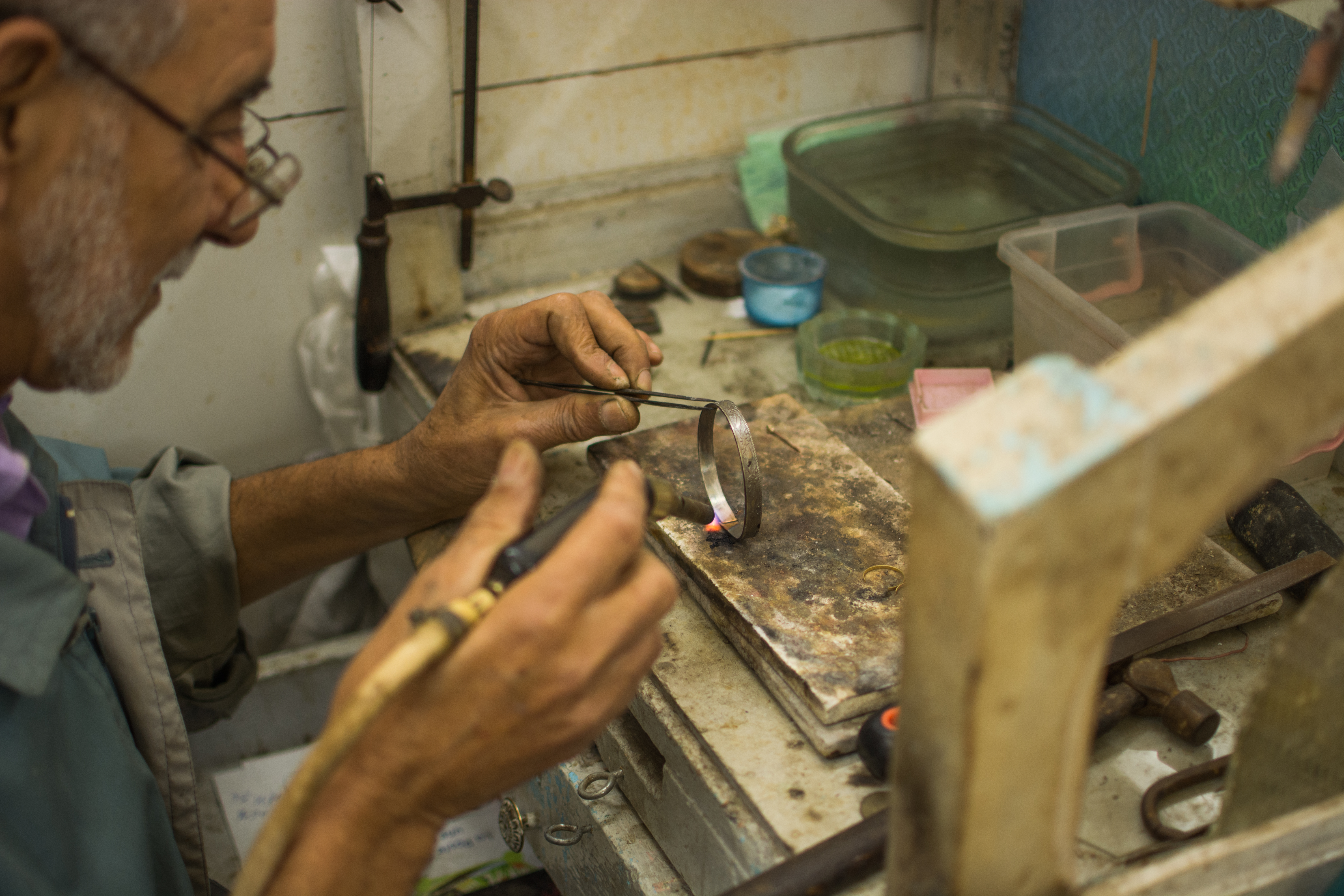 This is an image of Cultural Fashion or Adornment from Tunisia